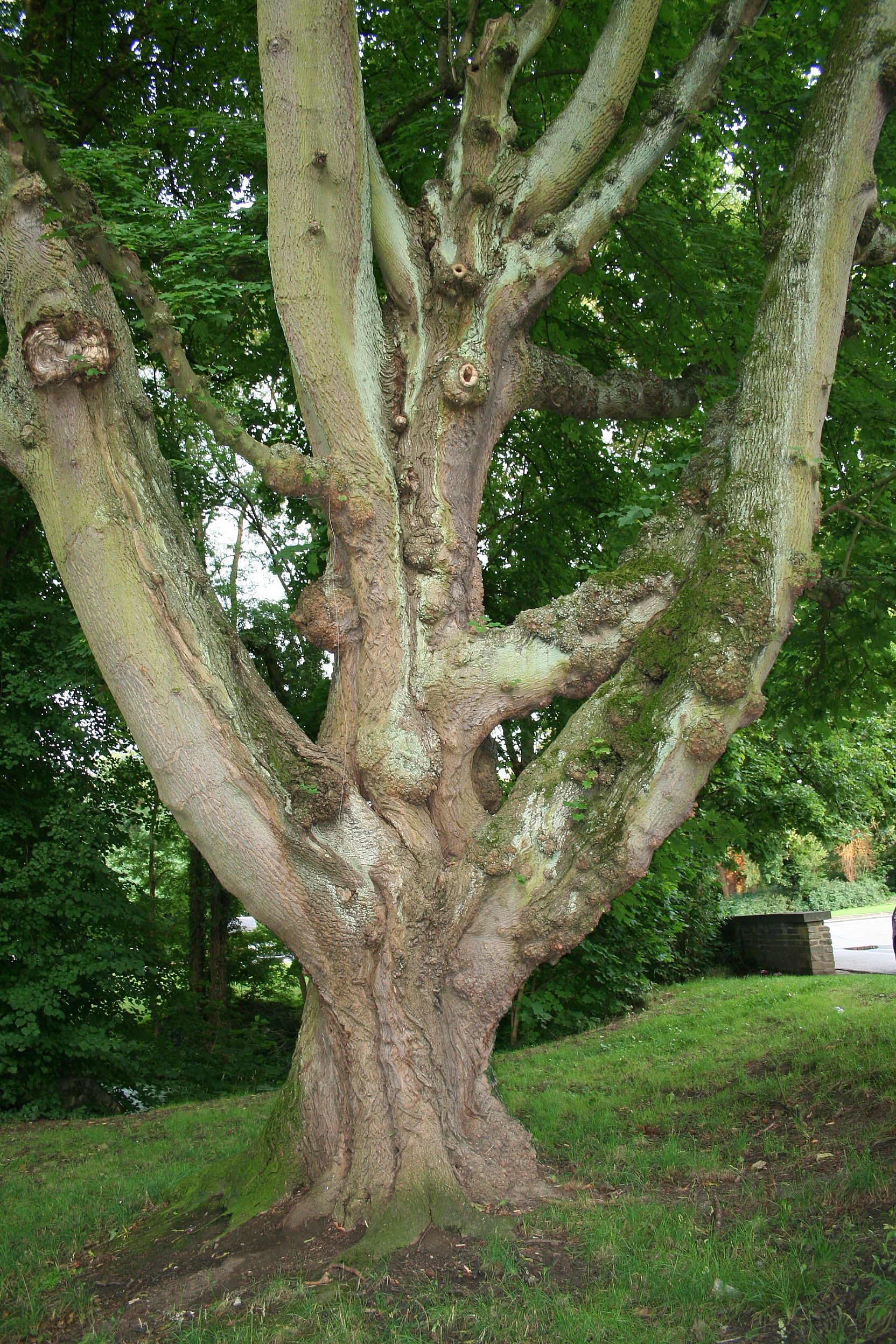 Norway Maple .